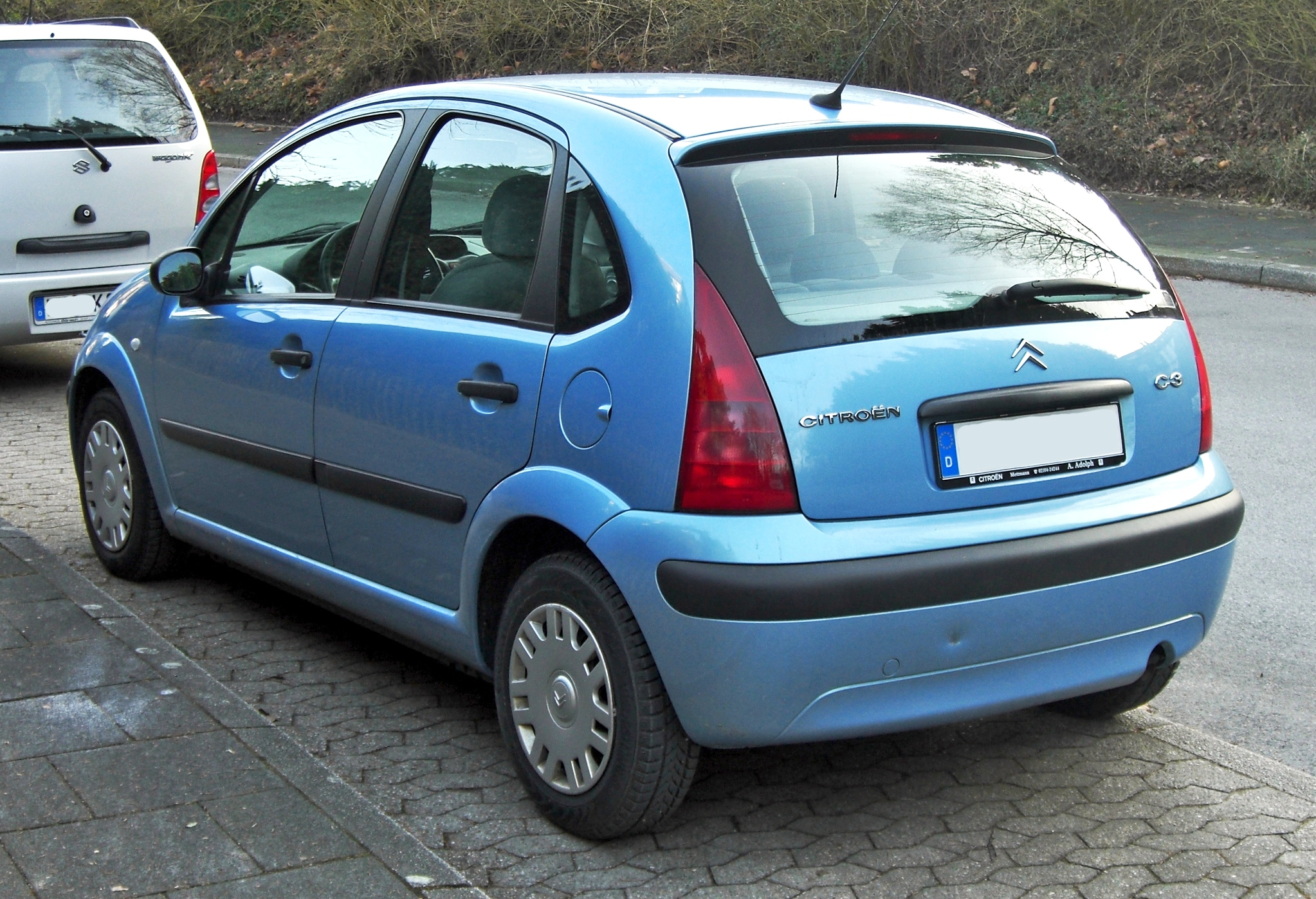 Citroën C3